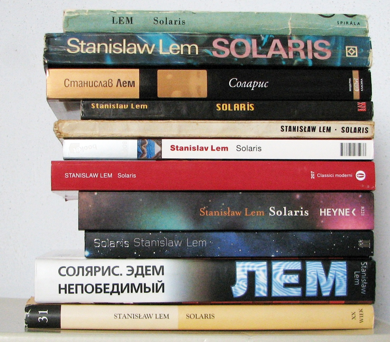 A few editions of Solaris (bottom to top): Polish, Russian, English, German, Italian, Spanish, Hungarian, Turkish, Bulgarian, Finnish, Czech.